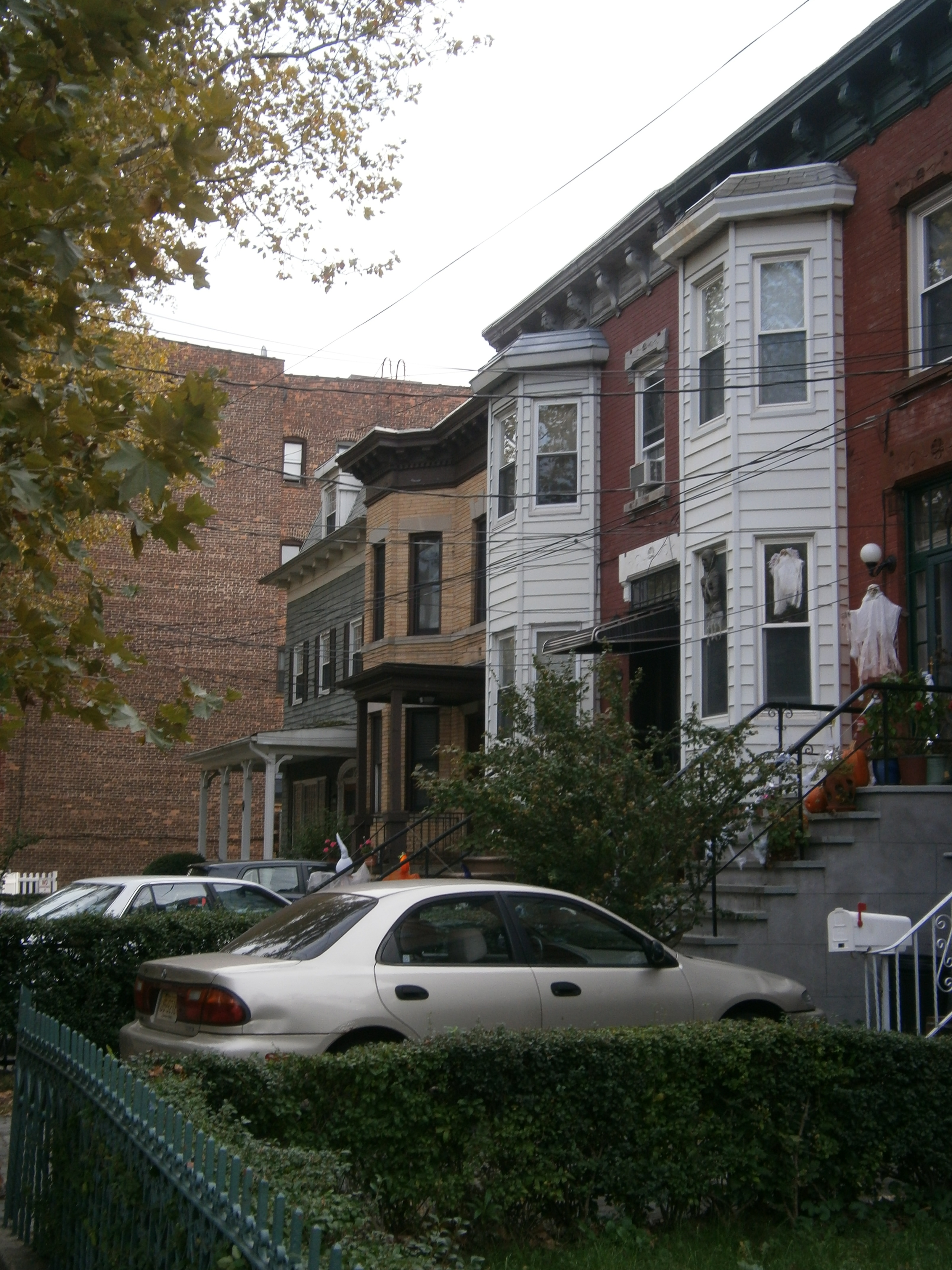 Pavonia Avenue near Journal Square, Jersey City